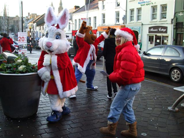 Christmas High Jinx, Omagh. Pictured at Market Street.